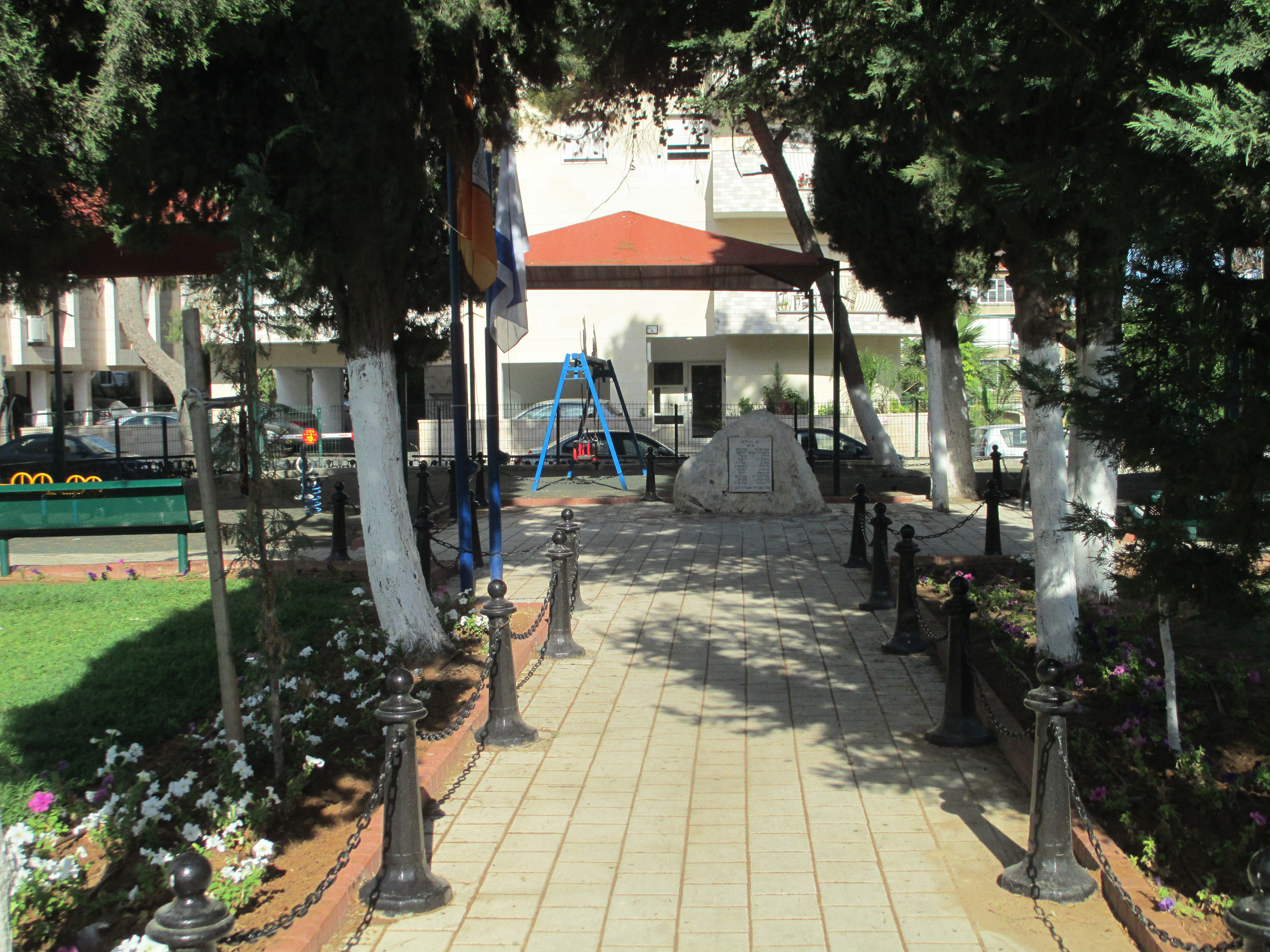 War memorial garden in Rishon LeZion